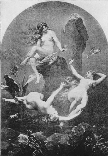 Illustration of the Rhinemaidens, from Wagner's opera Das Rheingold